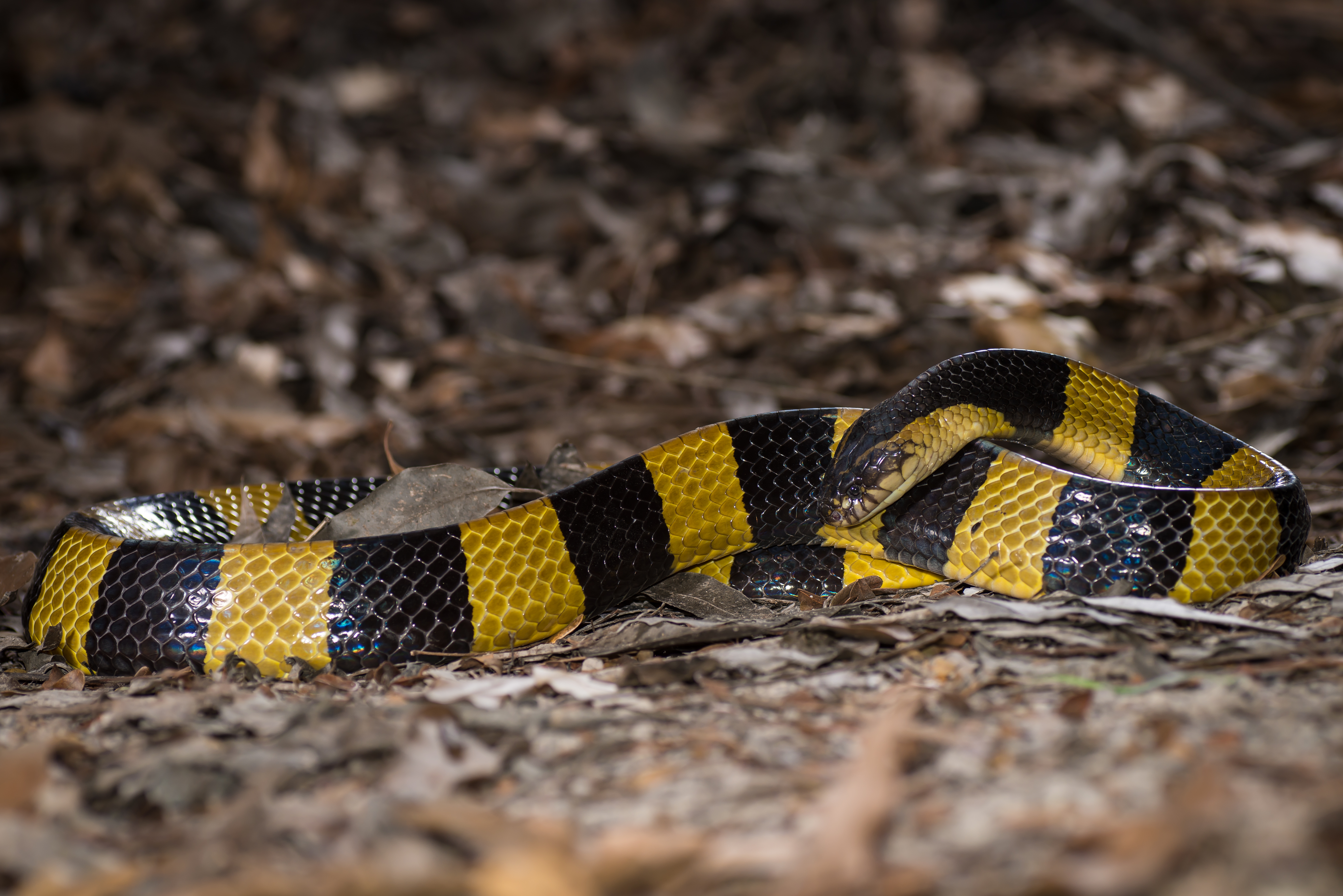 This photo is published under Creative Commons Attribution-Share-Alike Licence, means you are free to use this photo with attribution under same licence. For credits, please use following; Owner: Thai National Parks Link